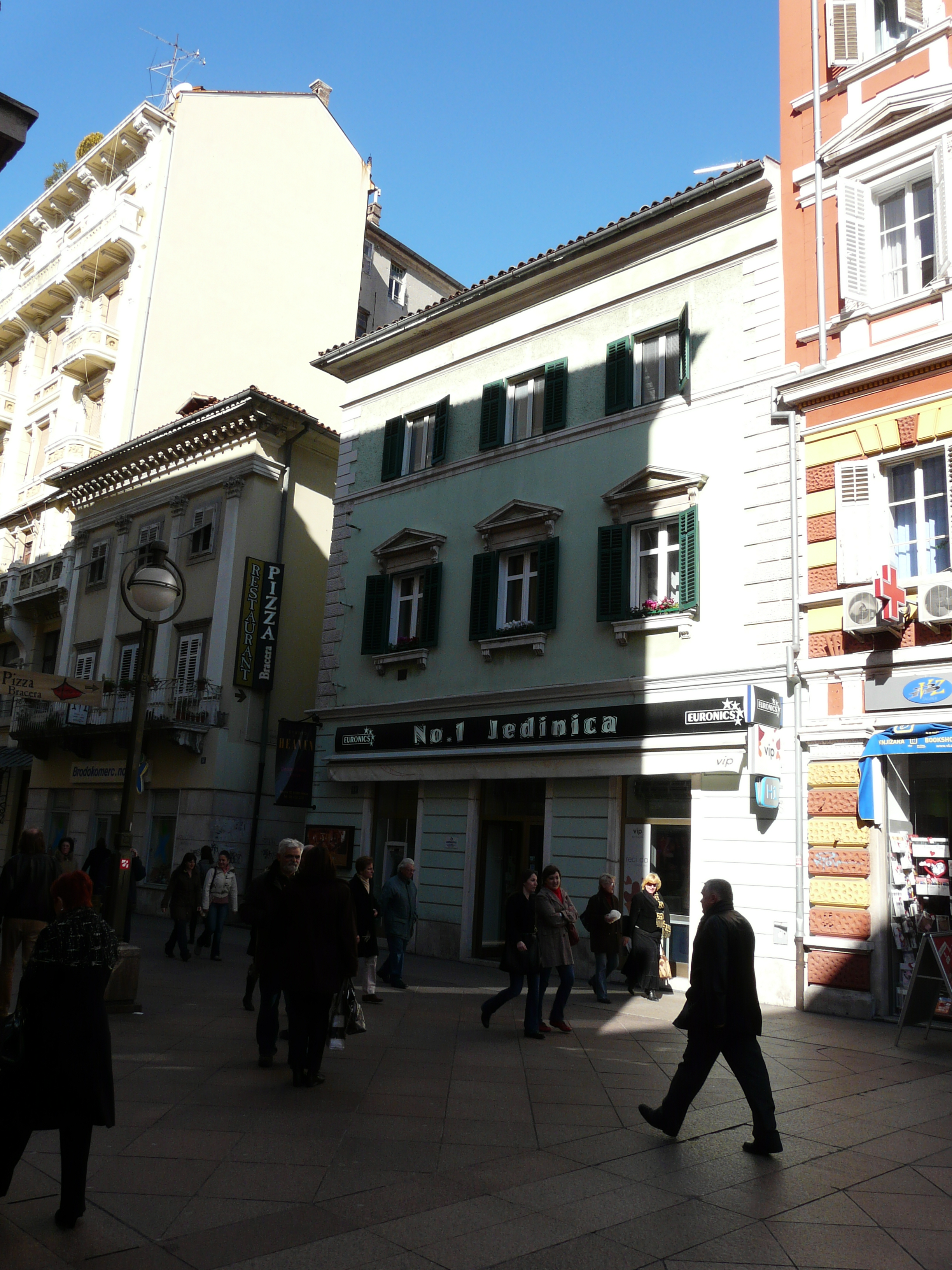 Houses on Korzo str 34 and 36, close to Mattiassi House, RIjeka, Croatia.